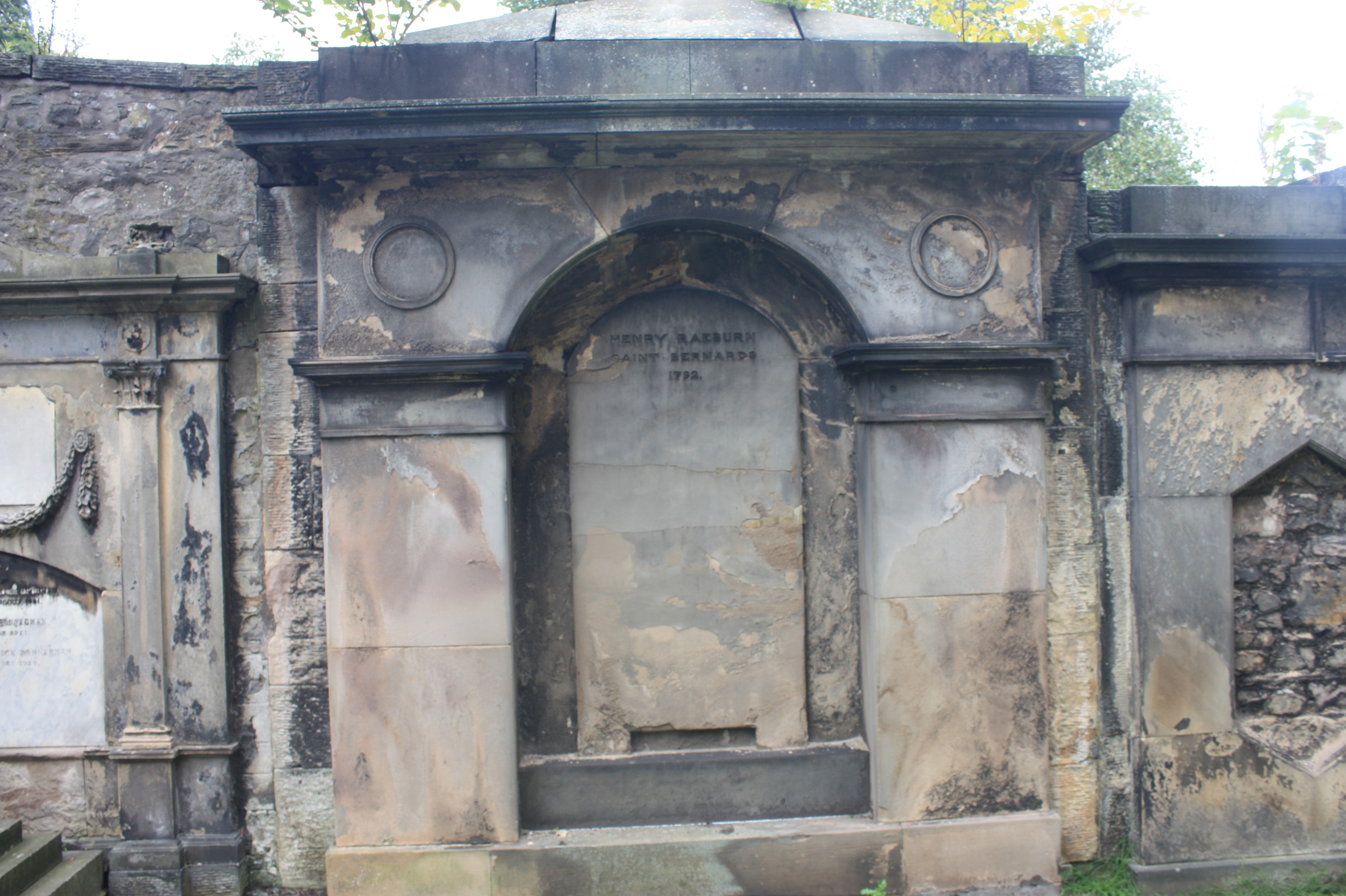 Henry Raeburn's grave, St Cuthberts, Edinburgh